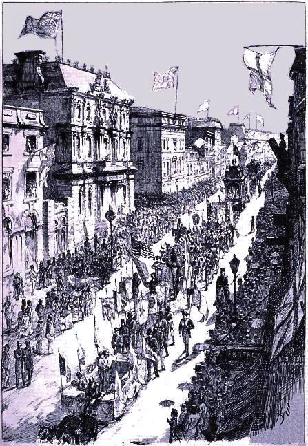 LA GRANDE FETE NATIONALE DES 24-25 JUIN 1874, A MONTREAL. LA PROCESSION PASSANT DANS LA RUE ST. JACQUES.